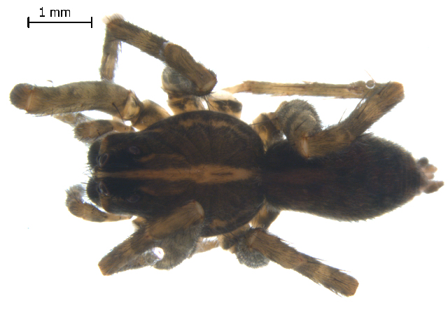 please update - this is not Eustala rosae